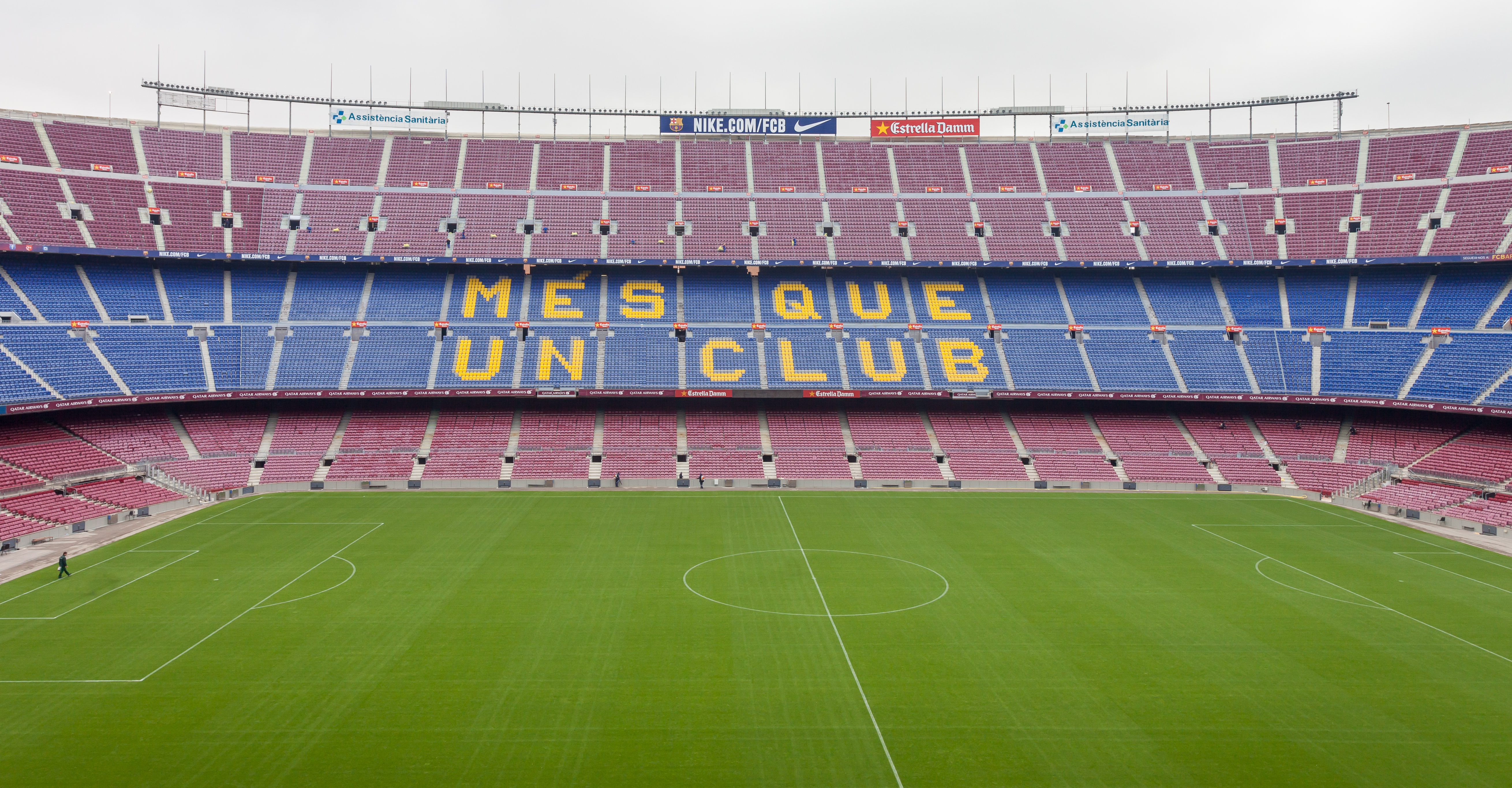 More than a club, Camp Nou, Barcelona, Catalonia.